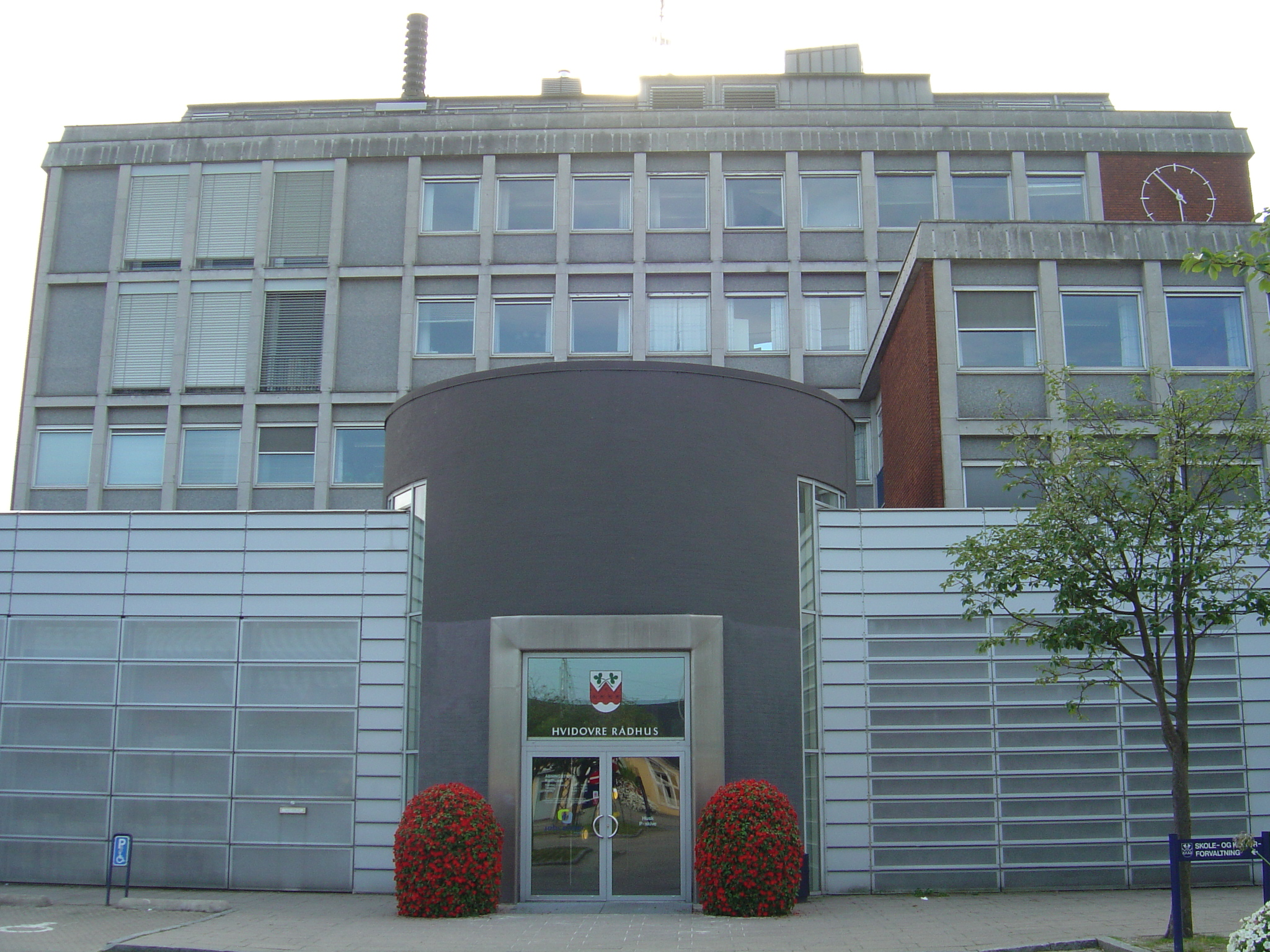 Hvidovre Rådhus - Main entrance to Town hall in Hvidovre, Copenhagen. Seen from eastern side, next to Hvidovrevej.